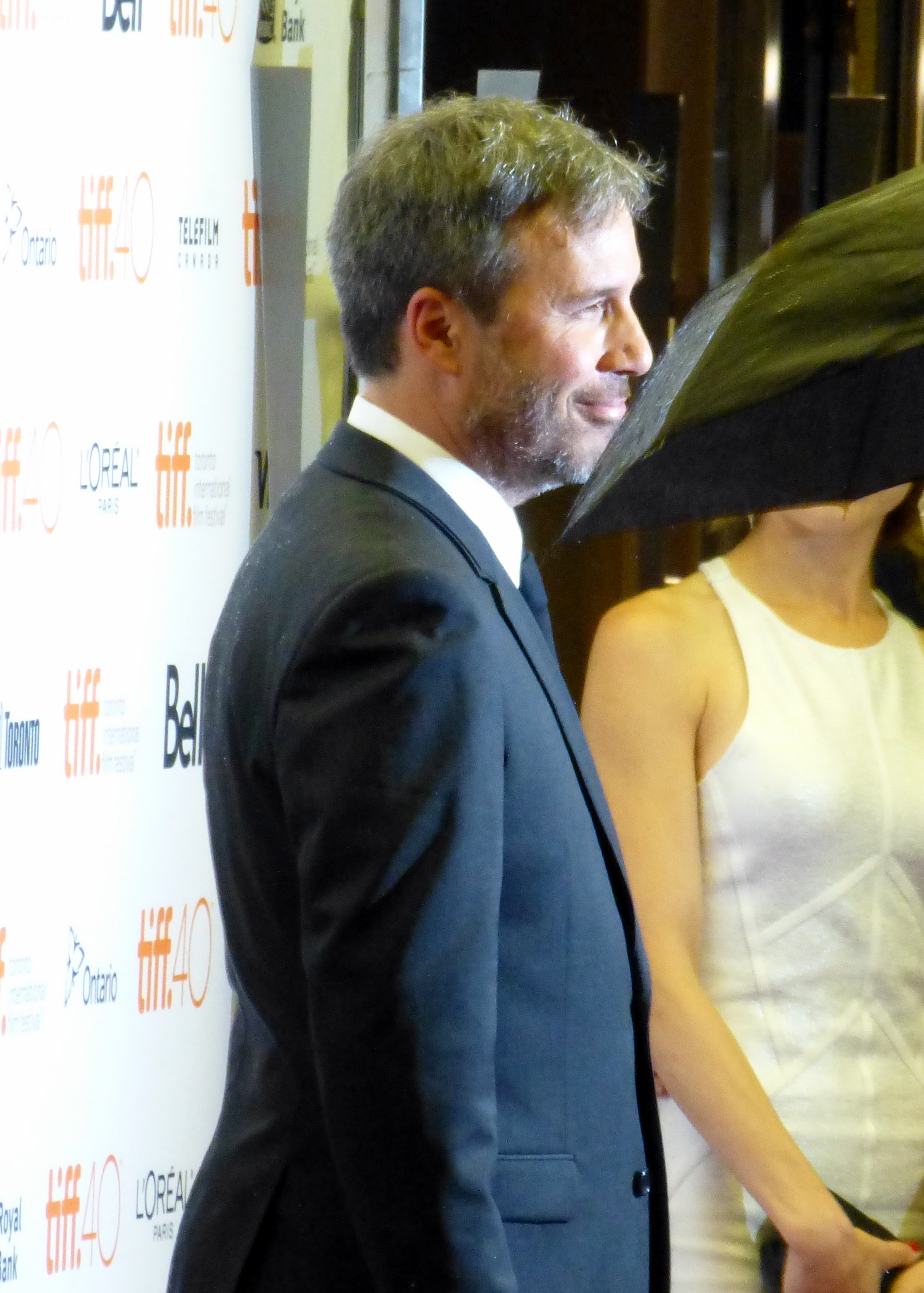 Director Denis Villeneuve at the premiere of Sicario, 2015 Toronto Film Festival